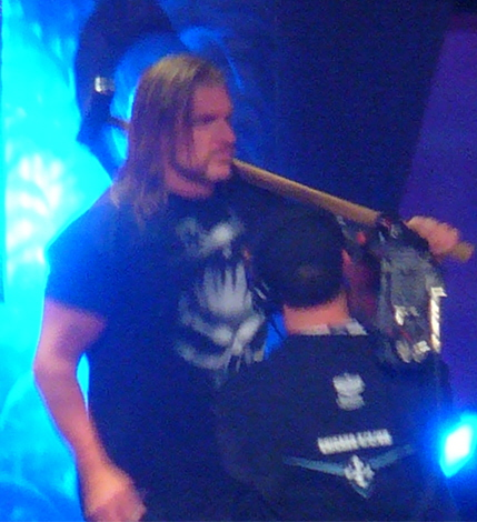 The rightful owner, Brad Colbert, gave me permission to distribute this image in Wikipedia. If you have any questions or concerns you can contact Mr. Colbert at